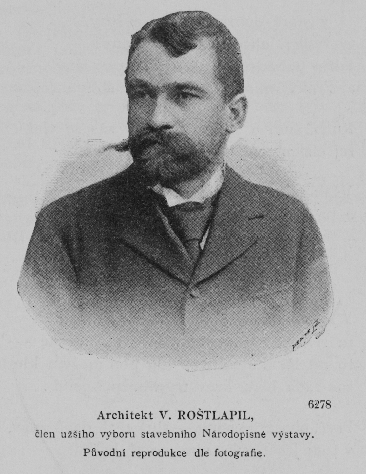 Portrait of Václav Roštlapil (1856 - 1930), Czech architect. The picture shows him as a member of construction committee of Czech & Slavonic Ethnographic Exhibition in Prague 1895.